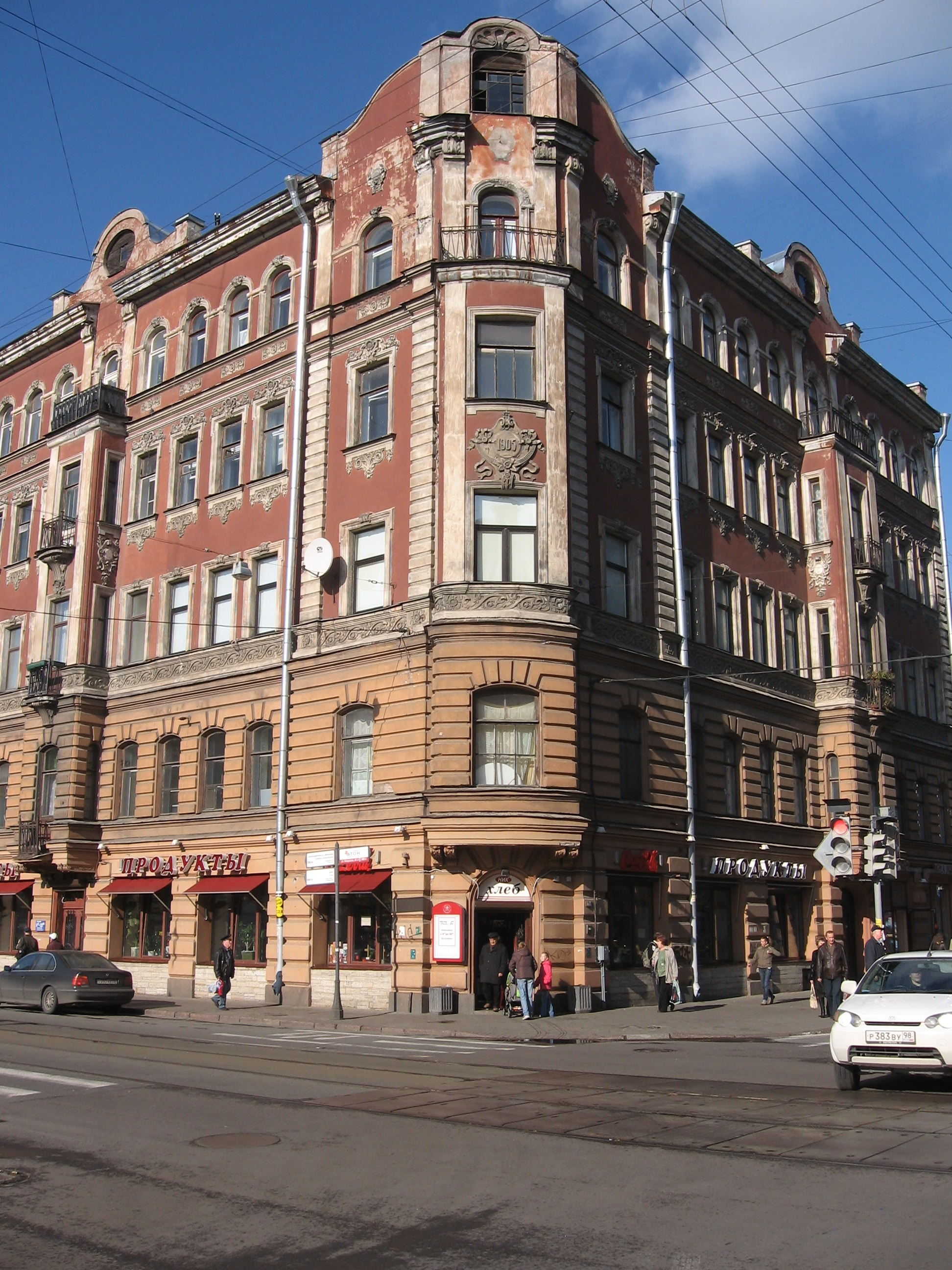 Crosseroads of Nekrasova and Mayakovskogo streets at St.Petersburg